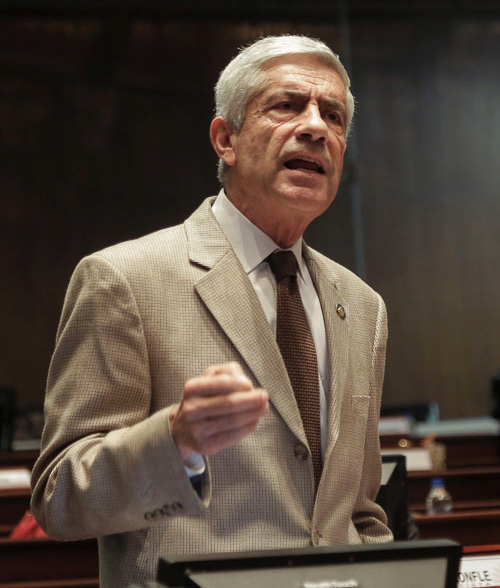 Fernando Callejas. Cropped from File:Sesion No. 456 del Pleno de la Asamblea Nacional - Fernando Callejas.jpg